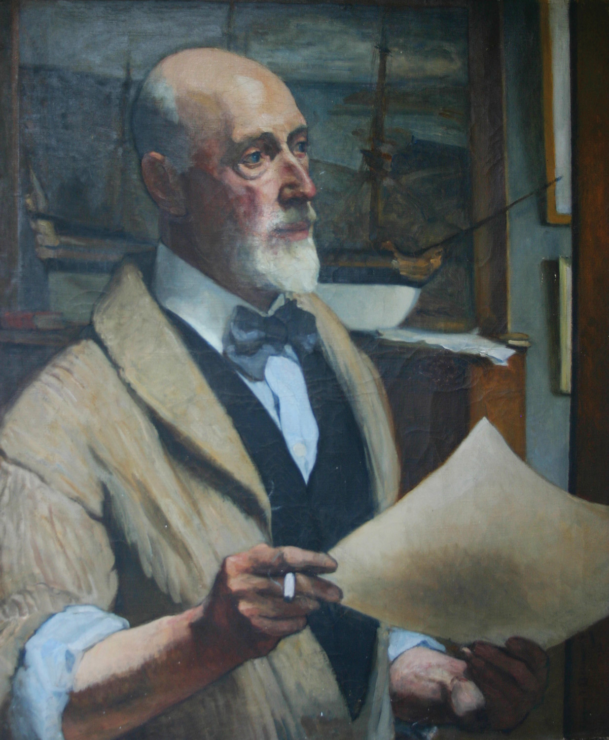 André Dauchez